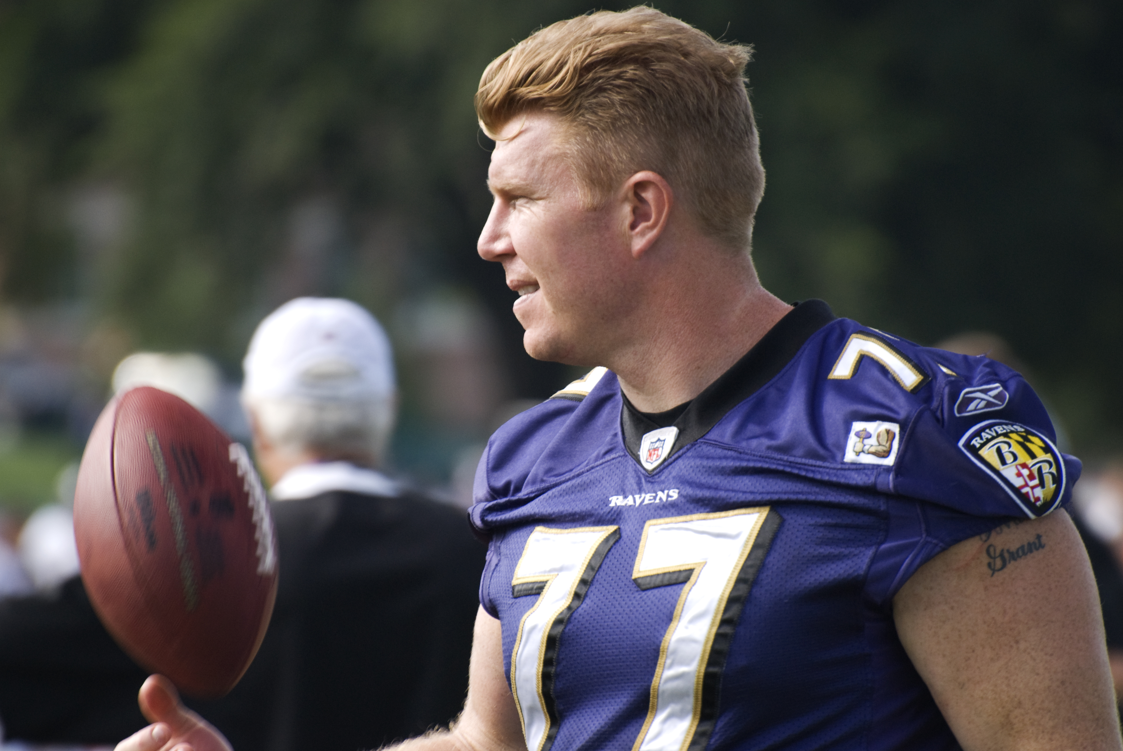 Baltimore Ravens center Matt Birk tosses a football up and down on the sidelines at the morning session of training camp on August 5, 2009.